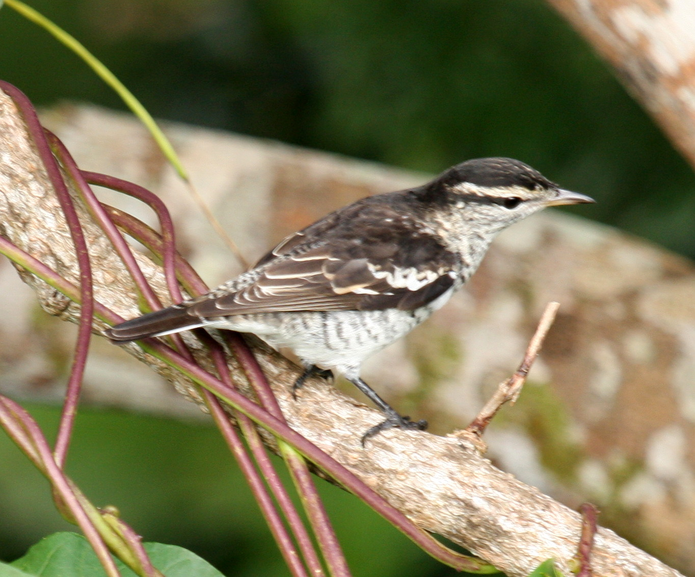 Polynesian Triller (Lalage maculosa) ssp woodi Savusavu, Vanua Levu, Fiji Isles